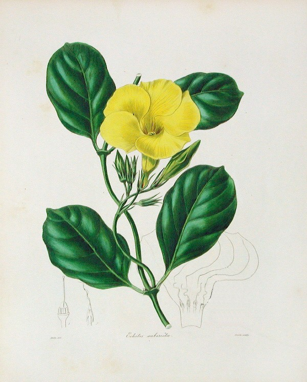 Pentalinon luteum (syn. Echites suberecta Jacq.), a plant of the West Indies